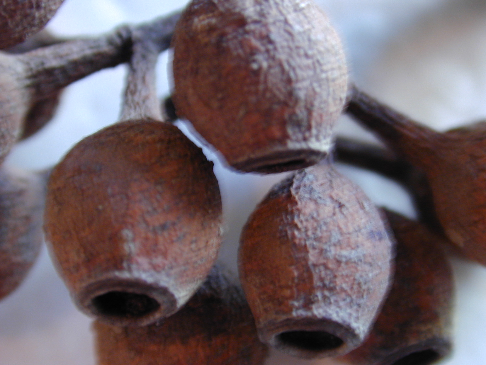 Corymbia citriodora (round urn fruit). Location: Maui, Hobdy collection